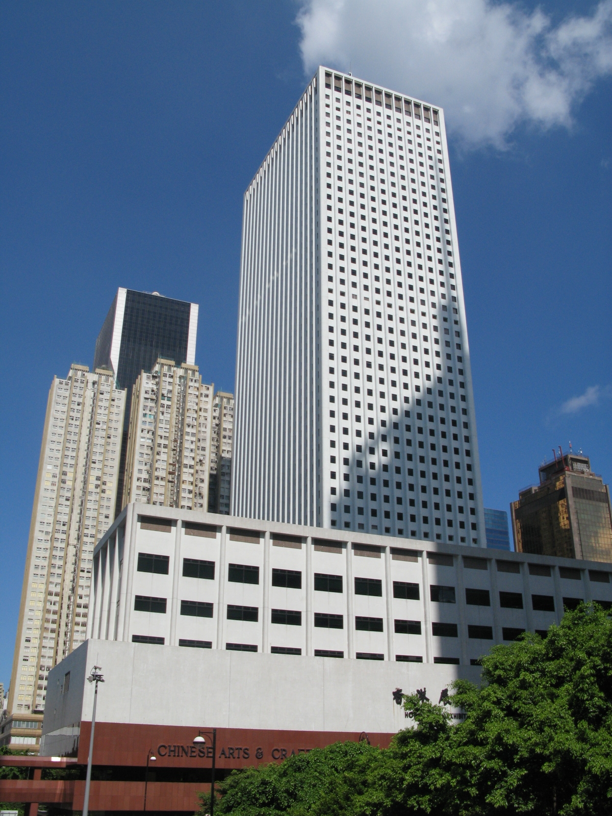 China Resources Building in Hong Kong